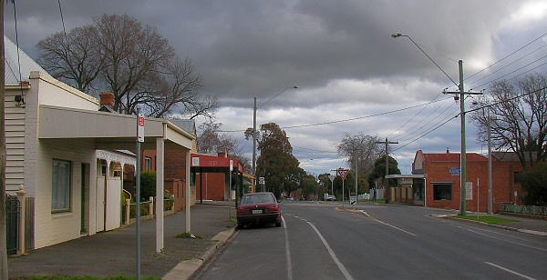 Looking south along Barkly Street near the intersection of Cobden Street in Mount Pleasant, Victoria.